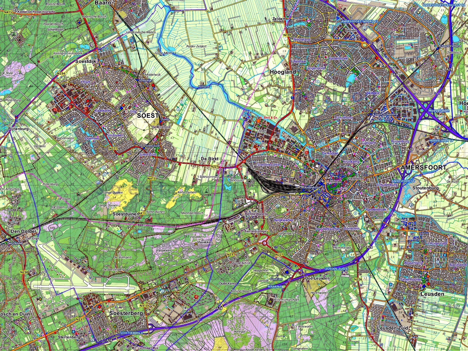 Topographic view of area between Soest and Amersfoort (Netherlands)